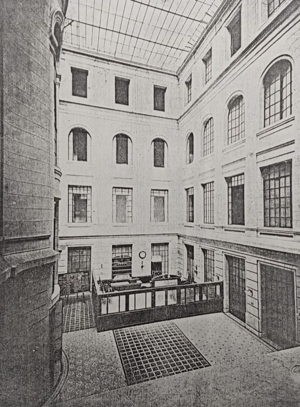 Imagen Antigua de la fachada realizada por los arquitectos originales